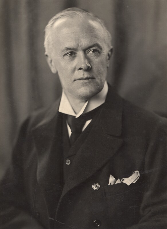 Ronald Munro Ferguson, Governor-General of Australia 1914-1920